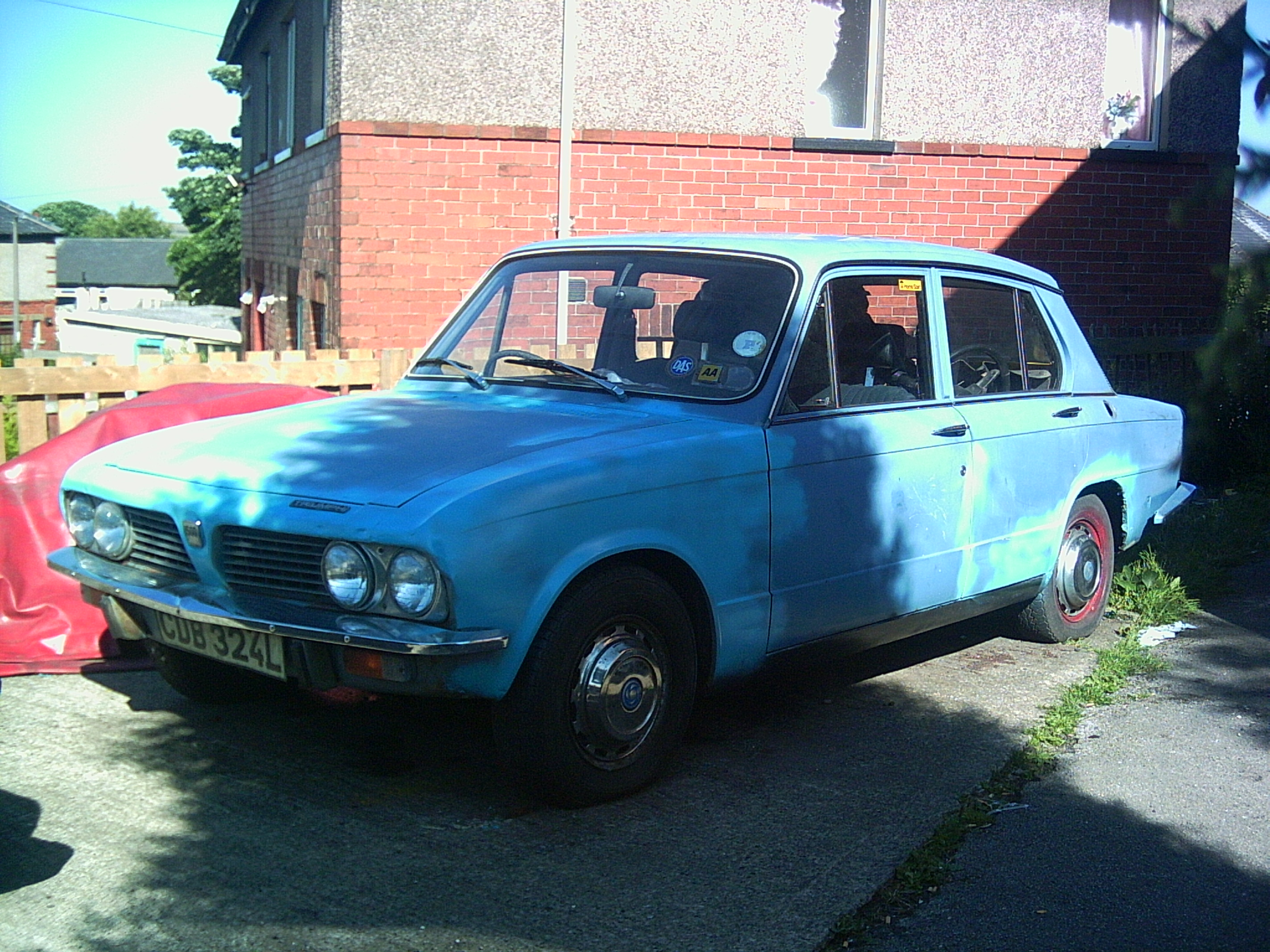 This is a photo of my Triumph 1500 taken by me.